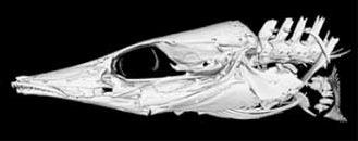 Cropped from file:Comparison of CT scans of heads of Mastacembelus species - 177-734-1-PB.jpeg, which has the following description: These 3D scans were generated using high-resolution x-ray computed tomography. Each image is the result of over 2000 individual x-rays of the whole animal, which are then compiled to produce 3D images displaying only the bone structure underneath the skin. The skulls displayed here are different species of spiny eels that are found only in Lake Tanganyika, East Africa, where 14 species have diversified in terms of genetics, ecology and morphology. This comparison demonstrates the striking diversity in skull structure and function of four of Lake Tanganyika's spiny eels. These morphological differences are correlated to differences in feeding strategy, and, like Darwin's famous finches, are indicative of an adaptive radiation, where species rapidly evolve from a common ancestor through adaption to different environments. (Clockwise from top left: Mastacembelus albomaculatus, M. moorii, M. platysoma, M. apectoralis).